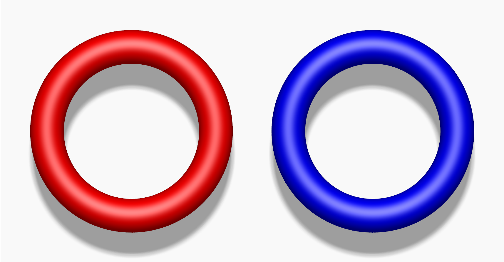 The unlink.